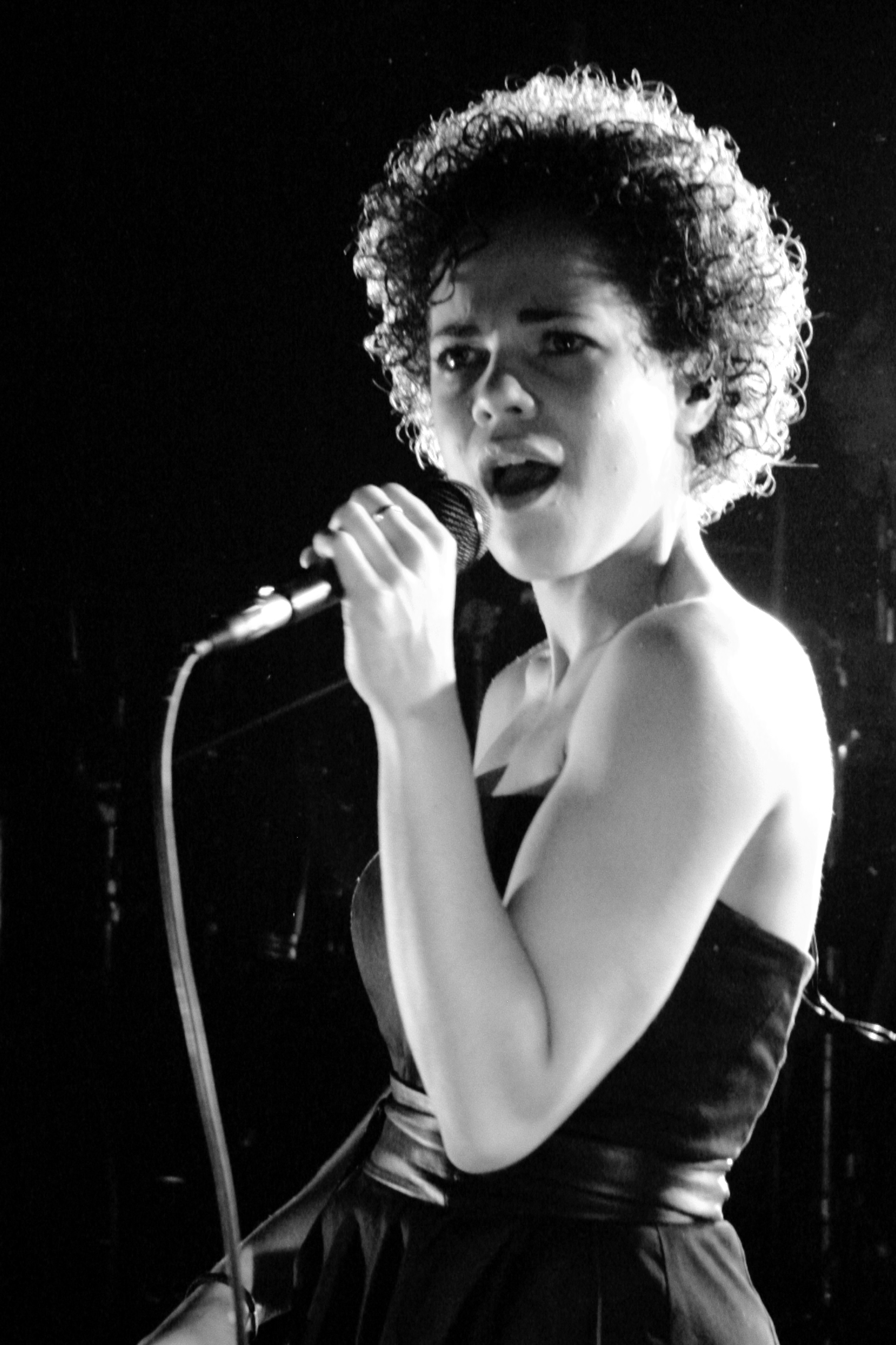 Beate Baumgartner during Parov Stelar Band concert, 2009.